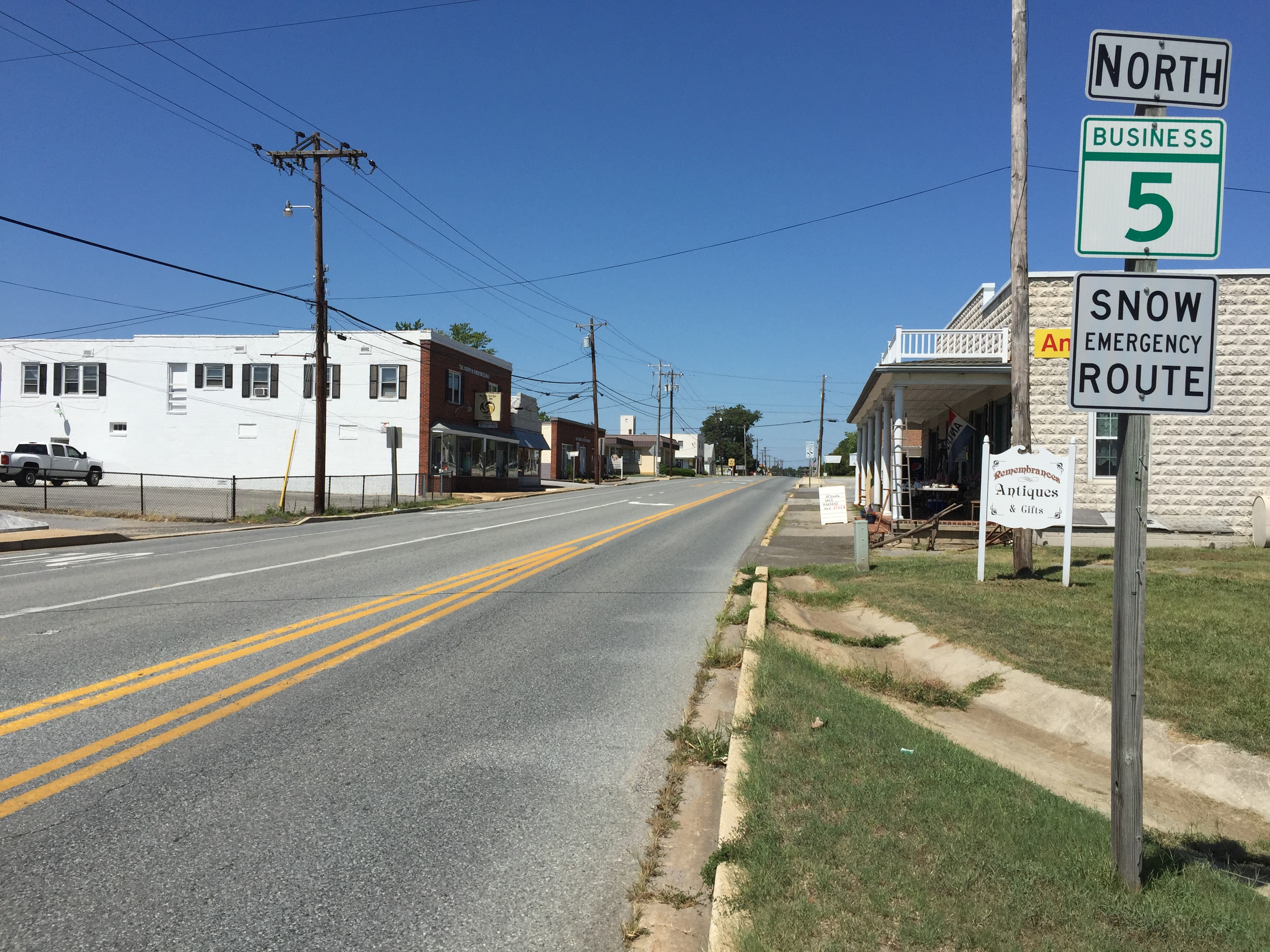 View north along Maryland State Route 625 and Maryland State Route 5 Business (Old Leonardtown Road) at Maryland State Route 231 (Prince Frederick Road) in Hughesville, Charles County, Maryland